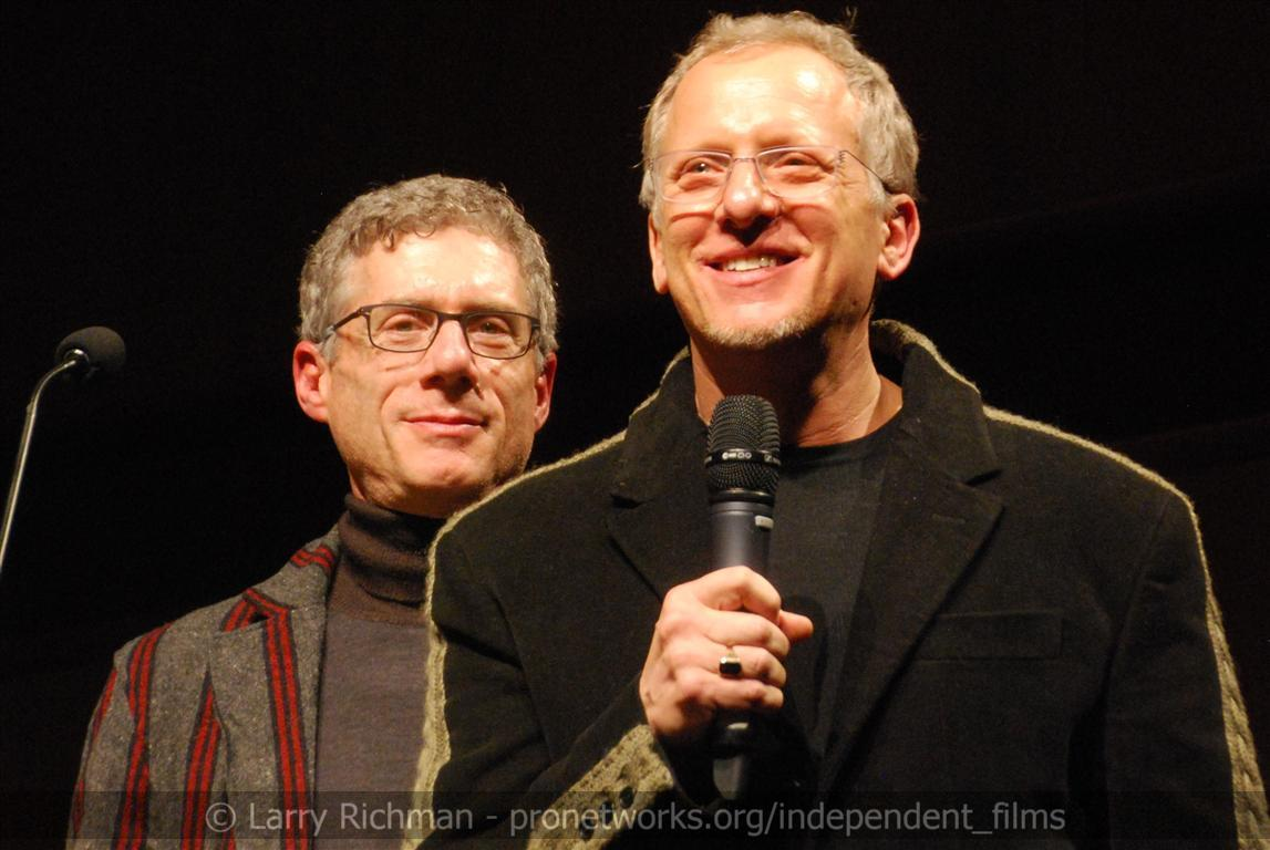 Co-directors Jeffrey Friedman and Rob Epstein